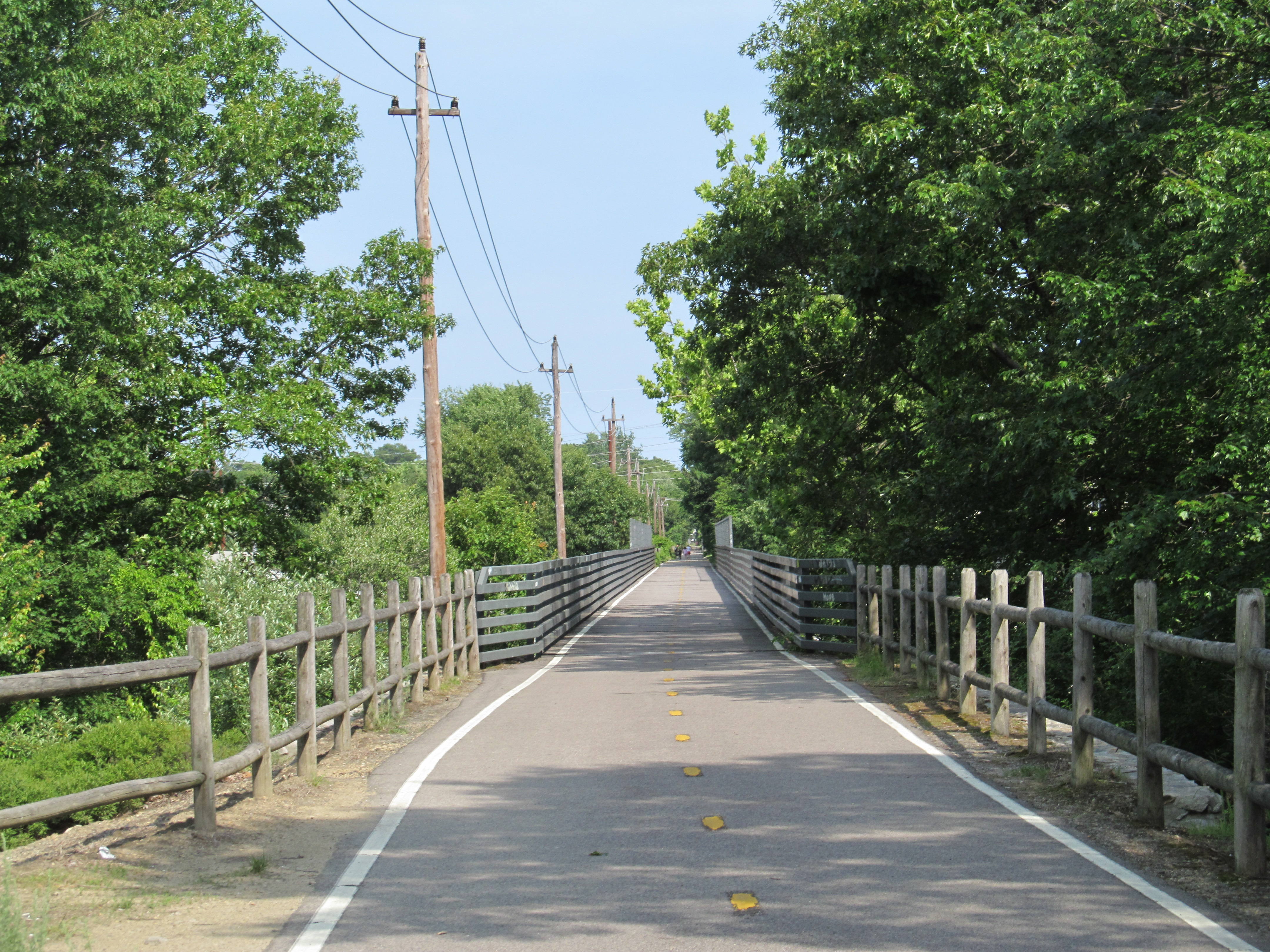 Bridge carrying the Washington Secondary Trail over the South Branch of the Pawtuxet River in West Warwick, Rhode Island